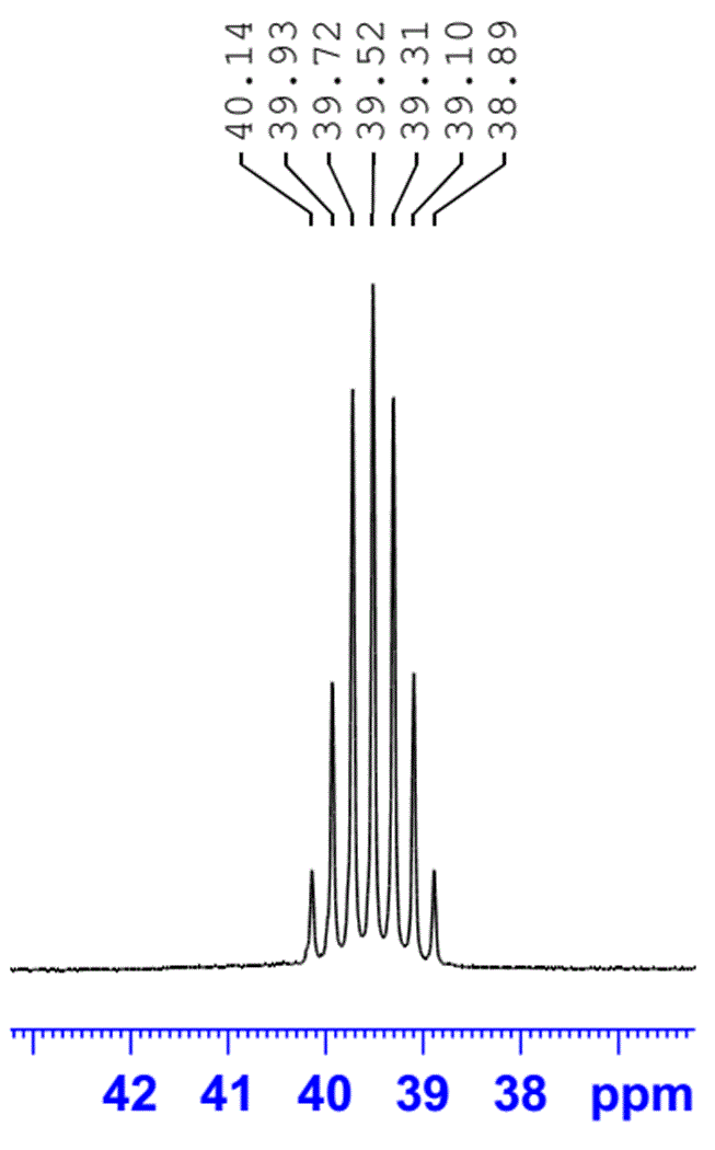 13C NMR Spectra of DMSO-d6